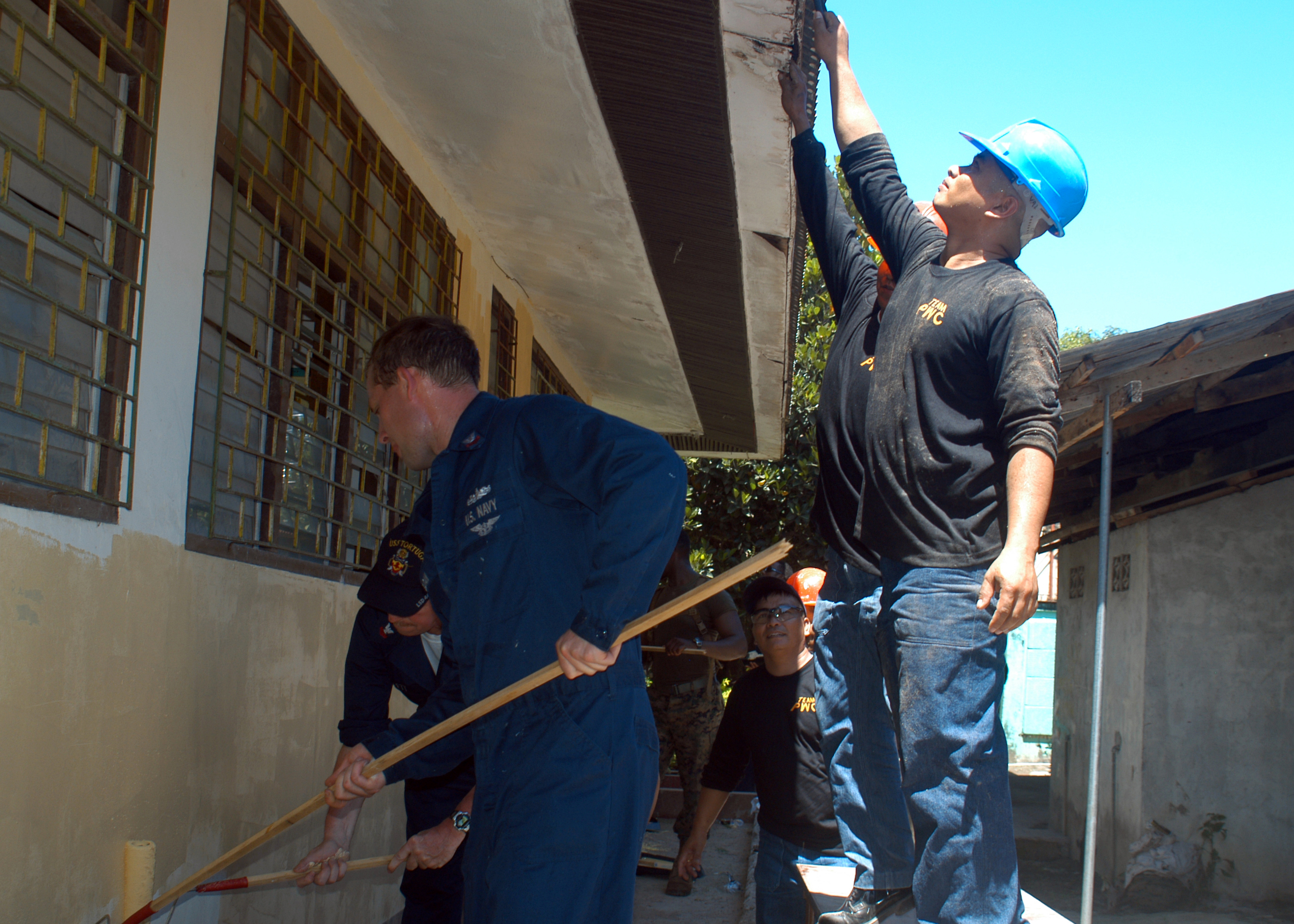 SUBIC BAY, Philippines (April 17, 2009) Sailors aboard the Navy's forward-deployed amphibious dock landing ship USS Tortuga (LSD 46) and sailors of the Armed Forces of the Philippines Navy paint and repair the West Dirita Elementary School in San Antonio, Zambales during a community service project. Tortuga is part of the Essex Amphibious Ready Group participating in Balikatan 2009, an annual combined, joint-bilateral exercise involving U.S. Military and Armed Forces of the Philippines personnel as well as subject matter experts from Philippine Civil Defense Agencies. (U.S. Navy photo by Mass Communication Specialist 1st Class Geronimo Aquino/Released)